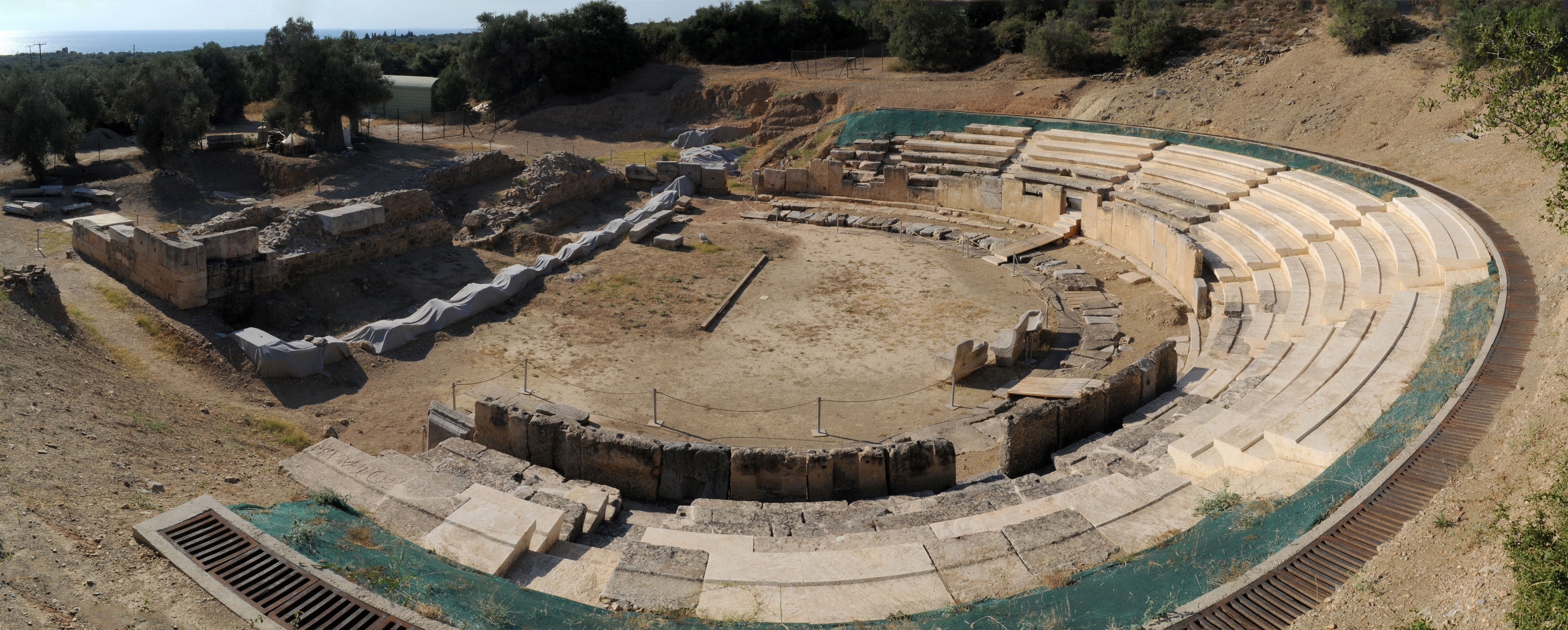 Panoramic image of ancient theater of Maronia, Rhodope, Thrace, Greece.